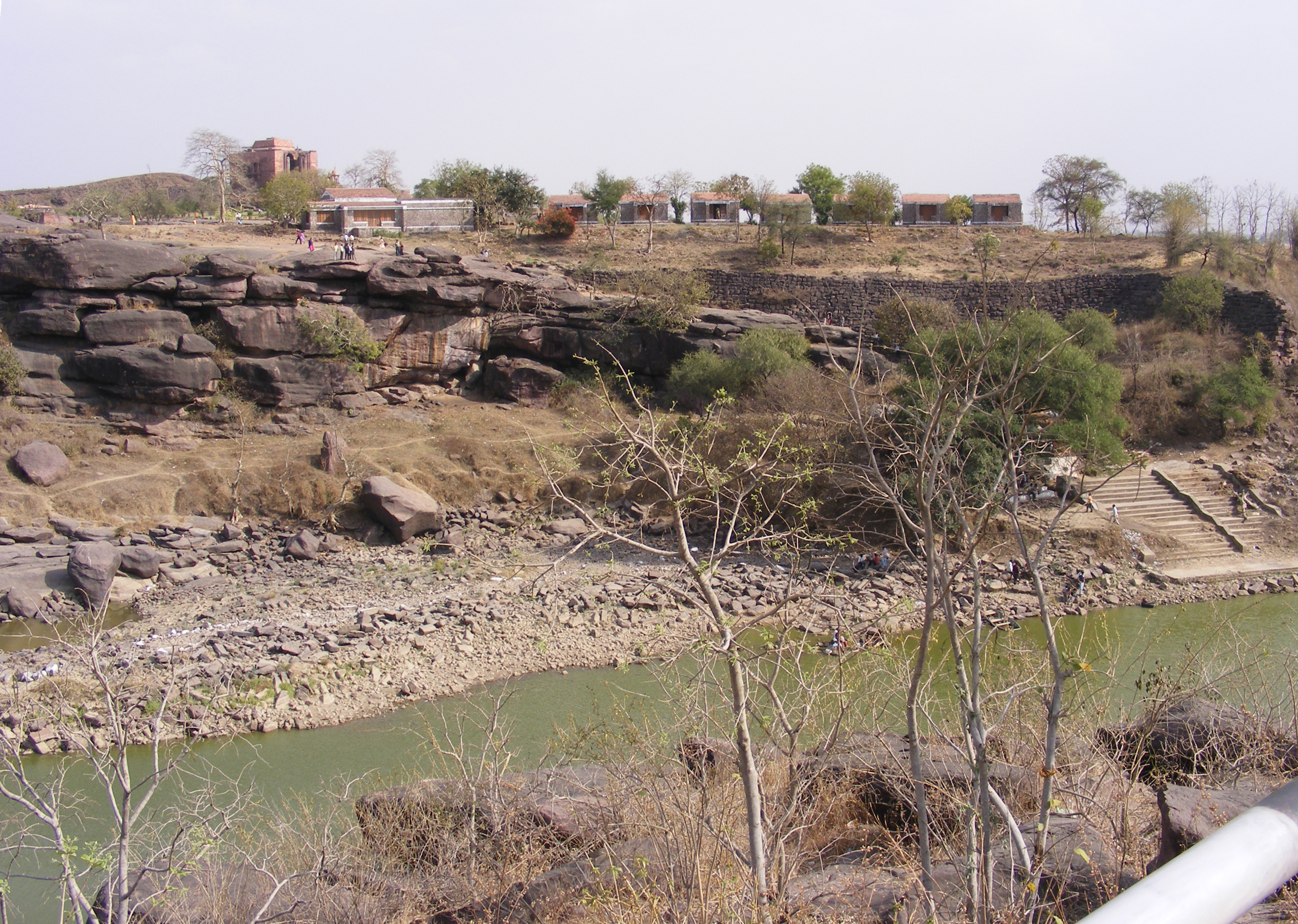 Picture showing river Betwa near Bhojpur, Madhya Pradesh, India